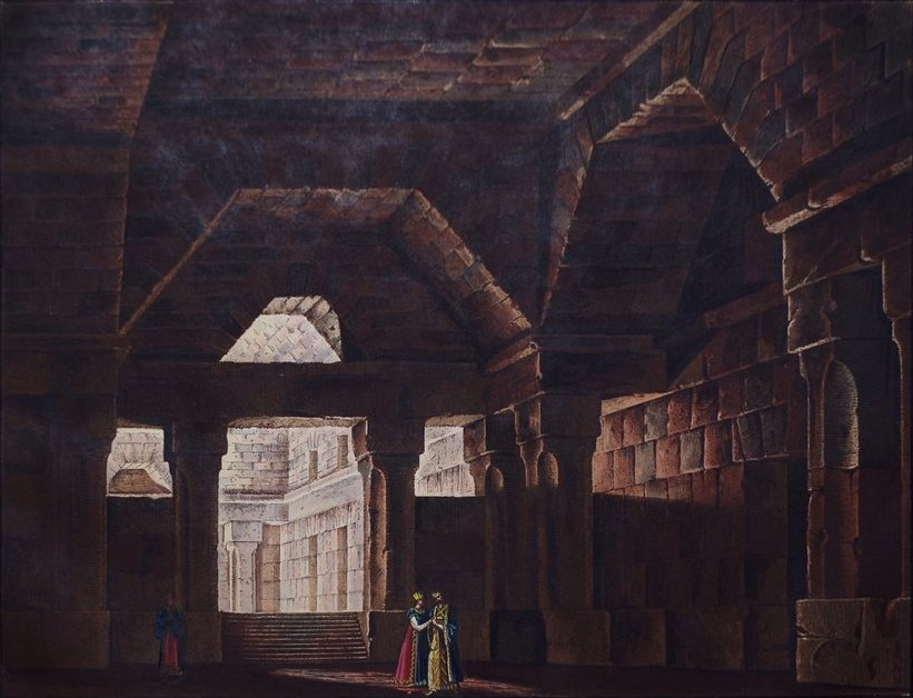 Prigione sotterranea (Dungeon) (Act 2, scene 1) Set design by Alessandro Sanquirico for opera 'Ciro in Babilonia' by Gioachino Rossini, for the 1818 Milan production at La Scala. Aquatint engraving with original hand color, after a drawing by Alessandro Sanquirico.